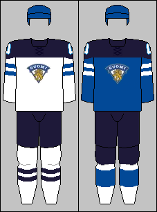 The home and away jerseys of the Finnish national ice hockey team used from the 2014 IIHF World Championship.